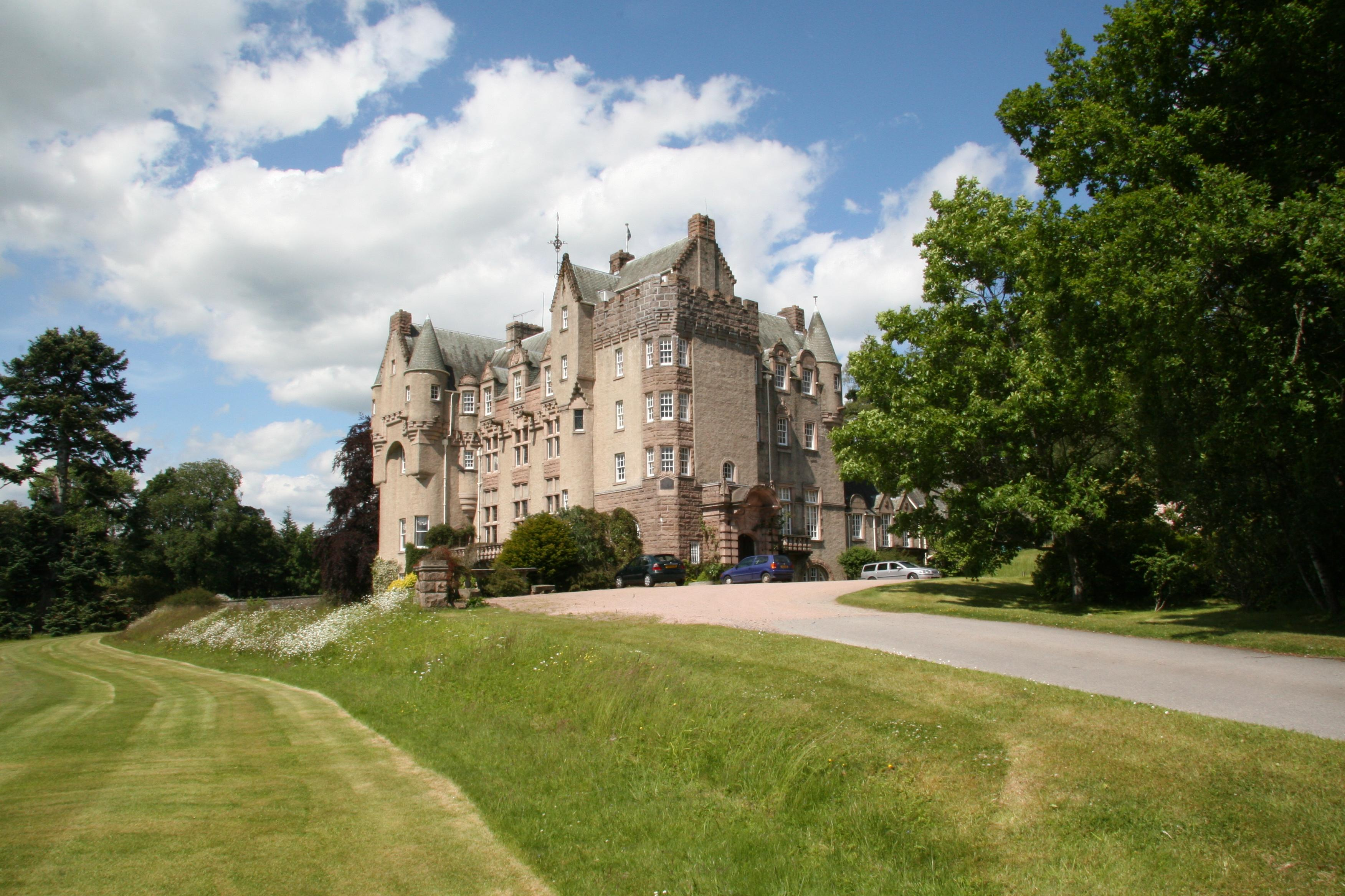 Kincardine from the south